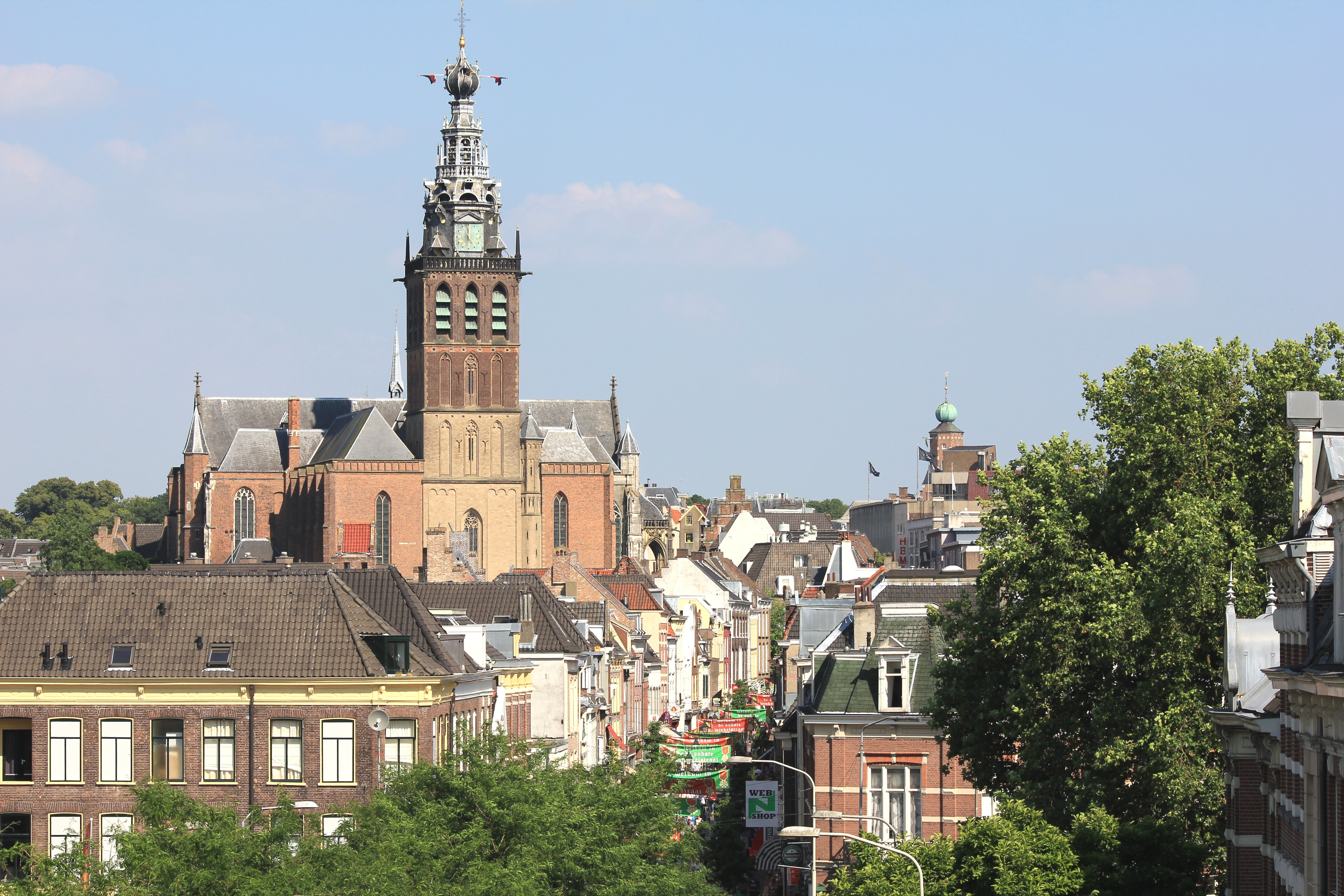 A view over Nijmegen from the train bridge.